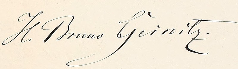 signature of H.B. Geinitz